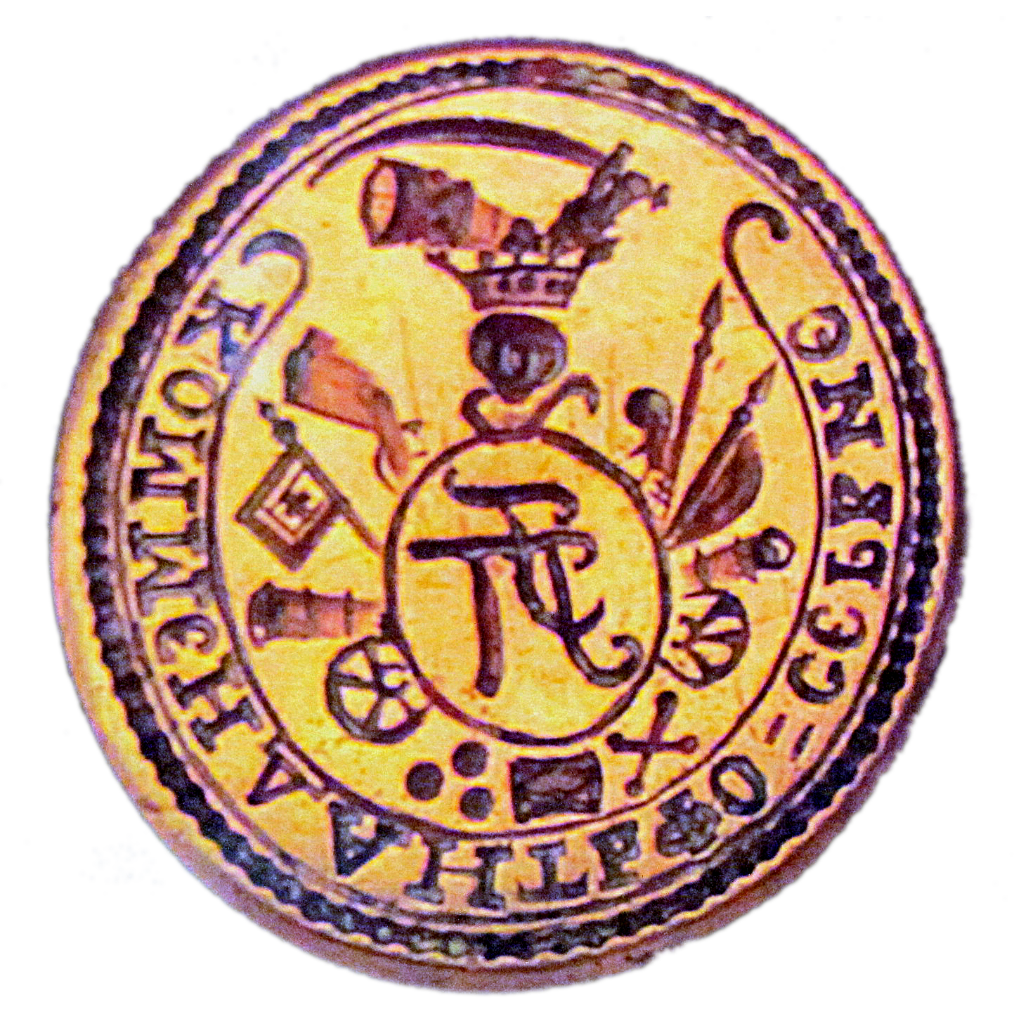 Karađorđe's seal (Historical Museum of Serbia, Belgrade)